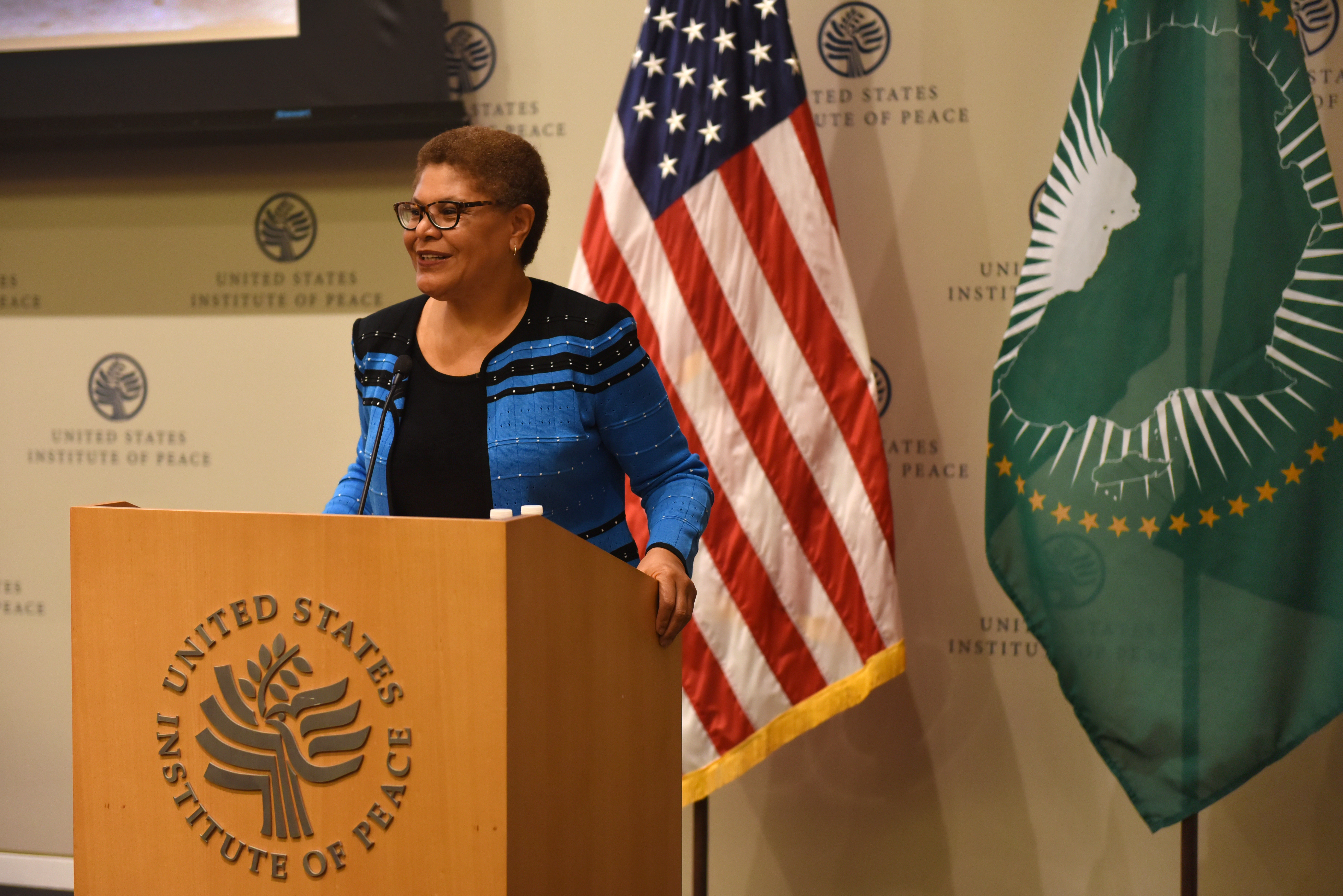 Representative Karen Bass (D-CA) delivers opening remarks. On May 23, we, alongside the African Diplomatic Corps and the Woodrow Wilson International Center for Scholars, hosted a discussion on forced displacement in Africa. The panel conversation highlighted African policy responses to displacement at the national, regional and continental level, discussed current and anticipated challenges and brainstormed innovative approaches. For more information on this event, visit